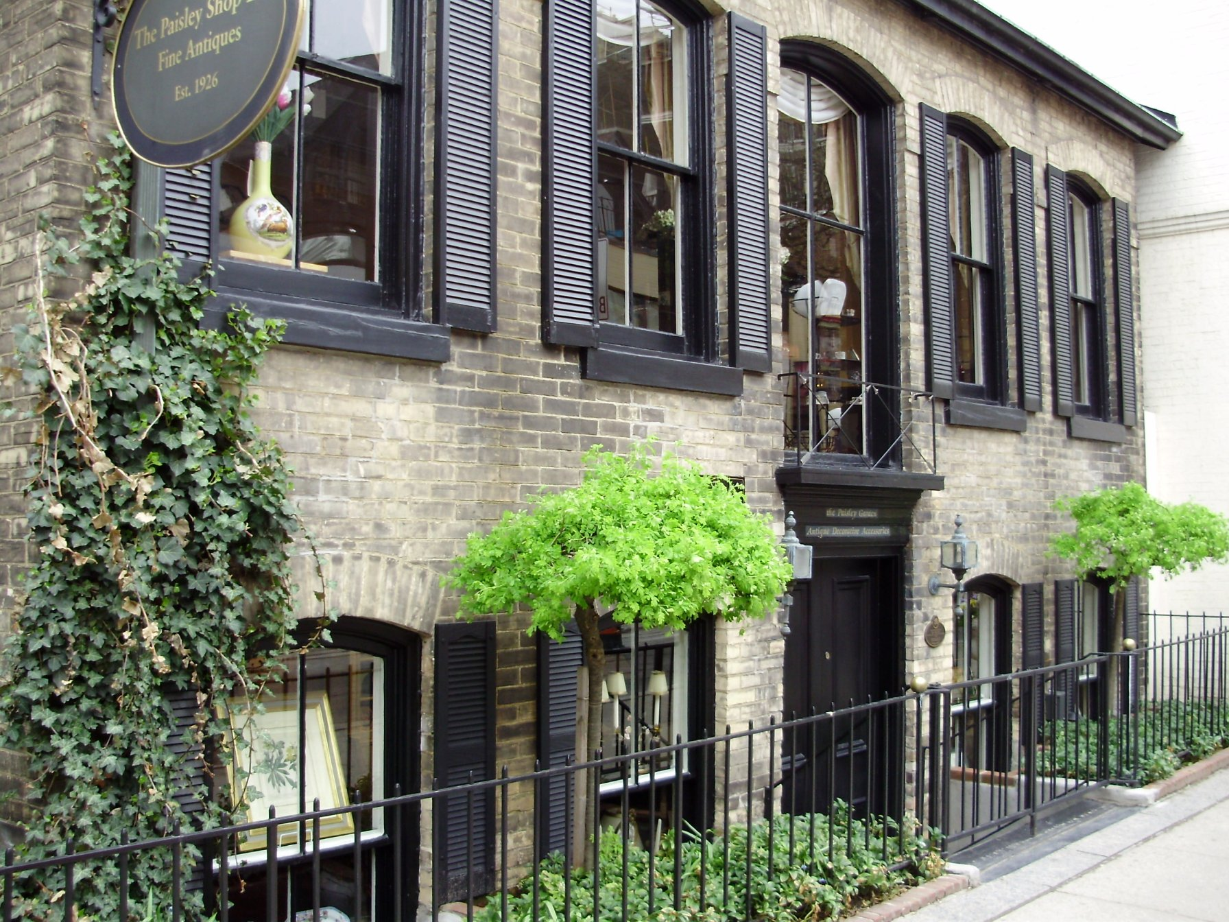 The house built in 1867 for John Daniels, a constable in the former village of Yorkville.